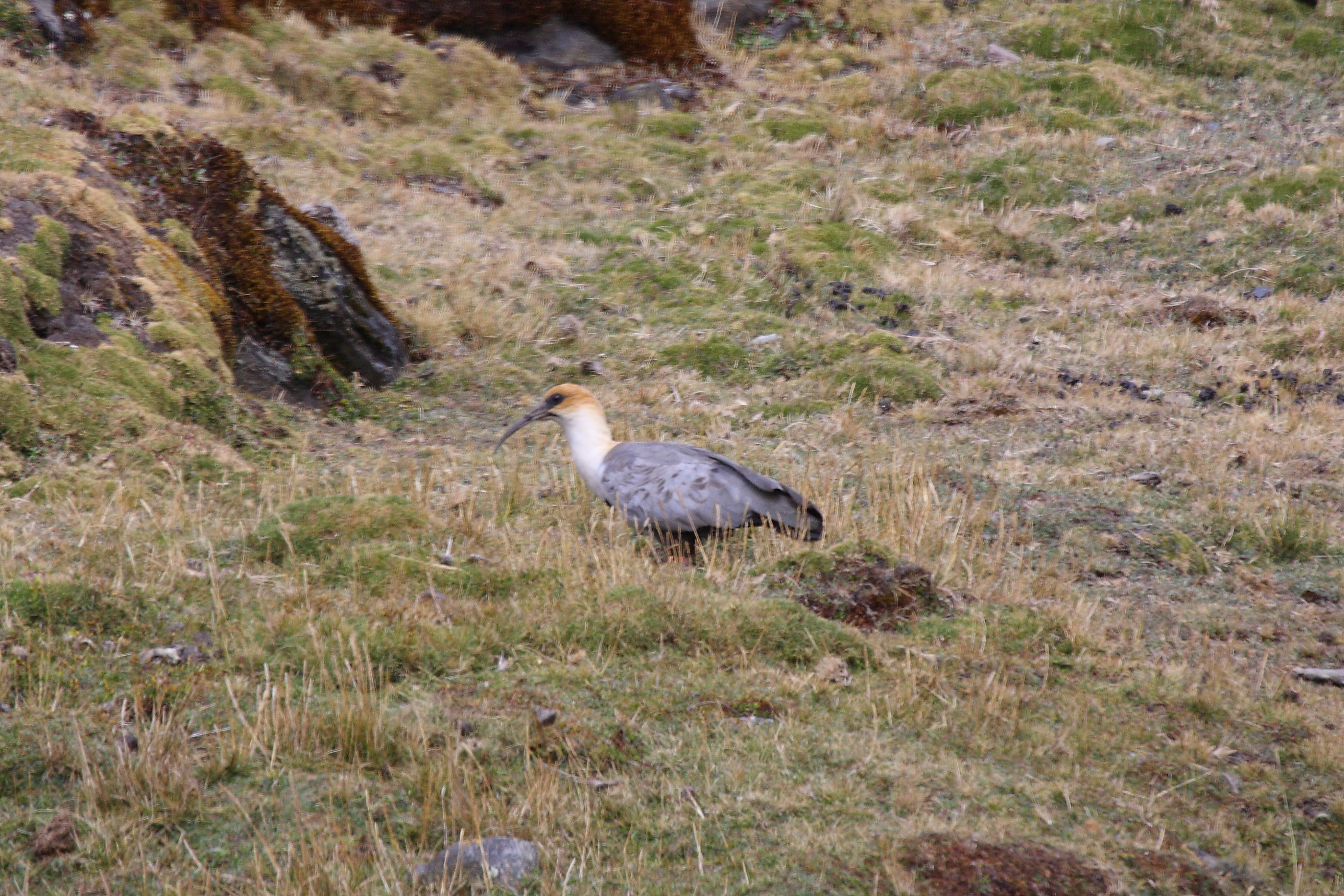 Andean Ibis (Theristicus branickii), Peru